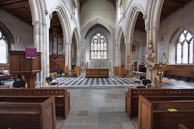 St Giles, Cripplegate, London EC2 - Chancel, near to London, City of London, Great Britain.